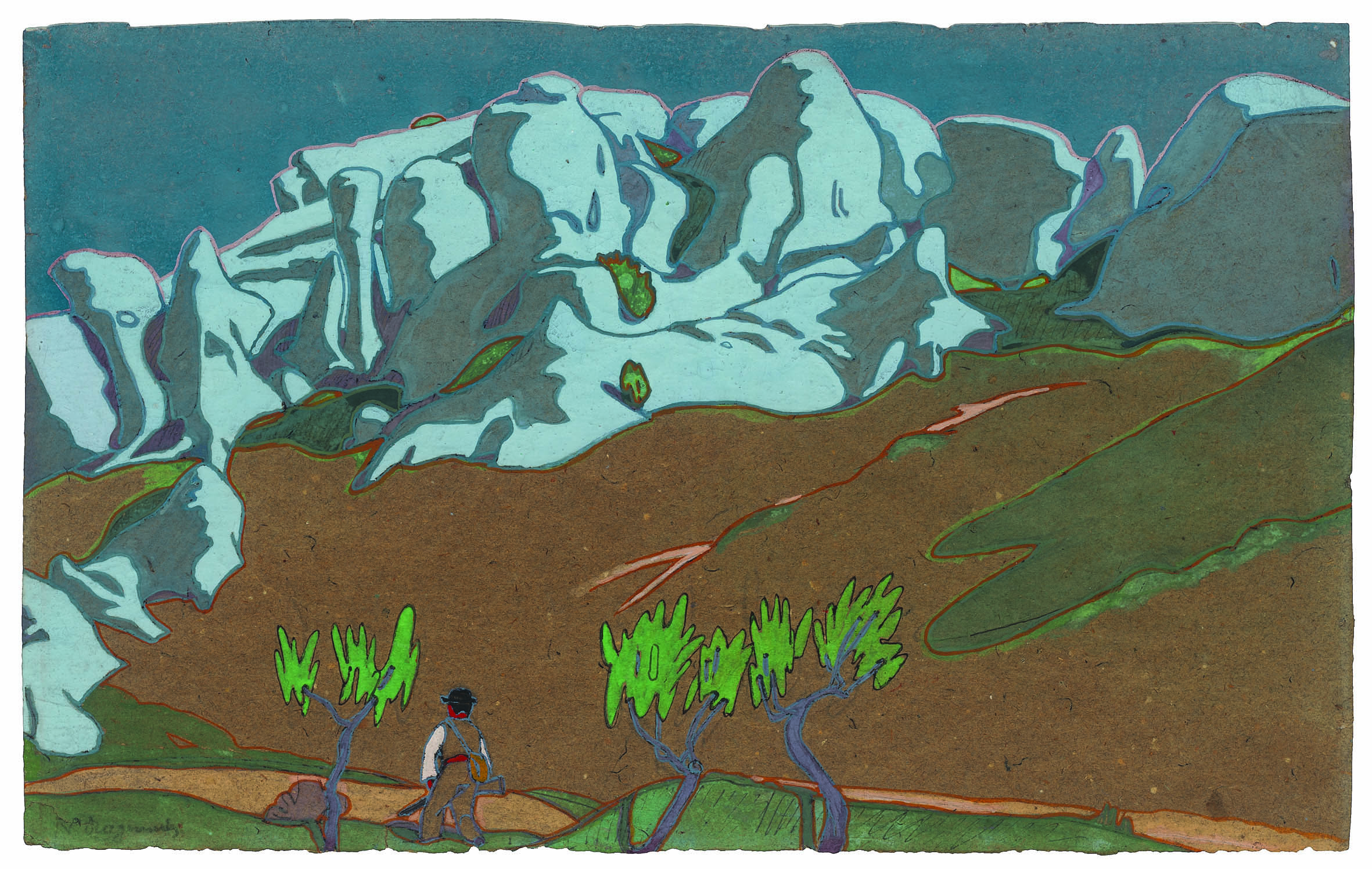 Nikos Stefanou Dragoumis, Chaîne des Alpilles, Saint-Rémy-de-Provence, gouache on paper, private collection